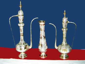 Main Brass Item of Moradabad